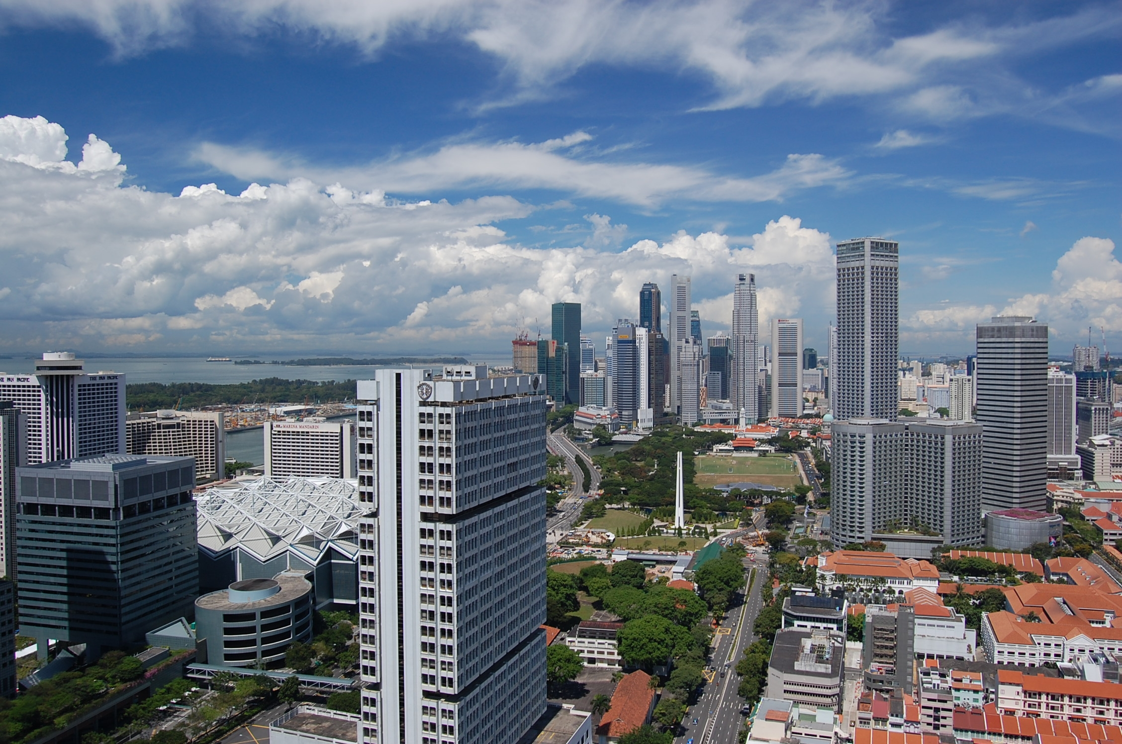 Downtown Core, Singapore's business centre.